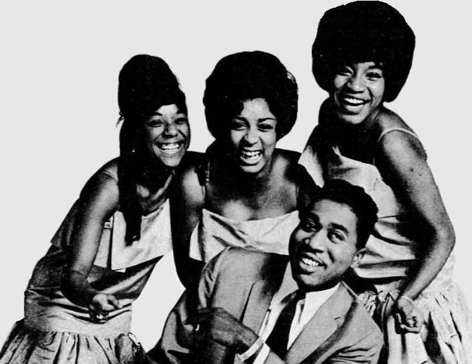 Photo of The Exciters.